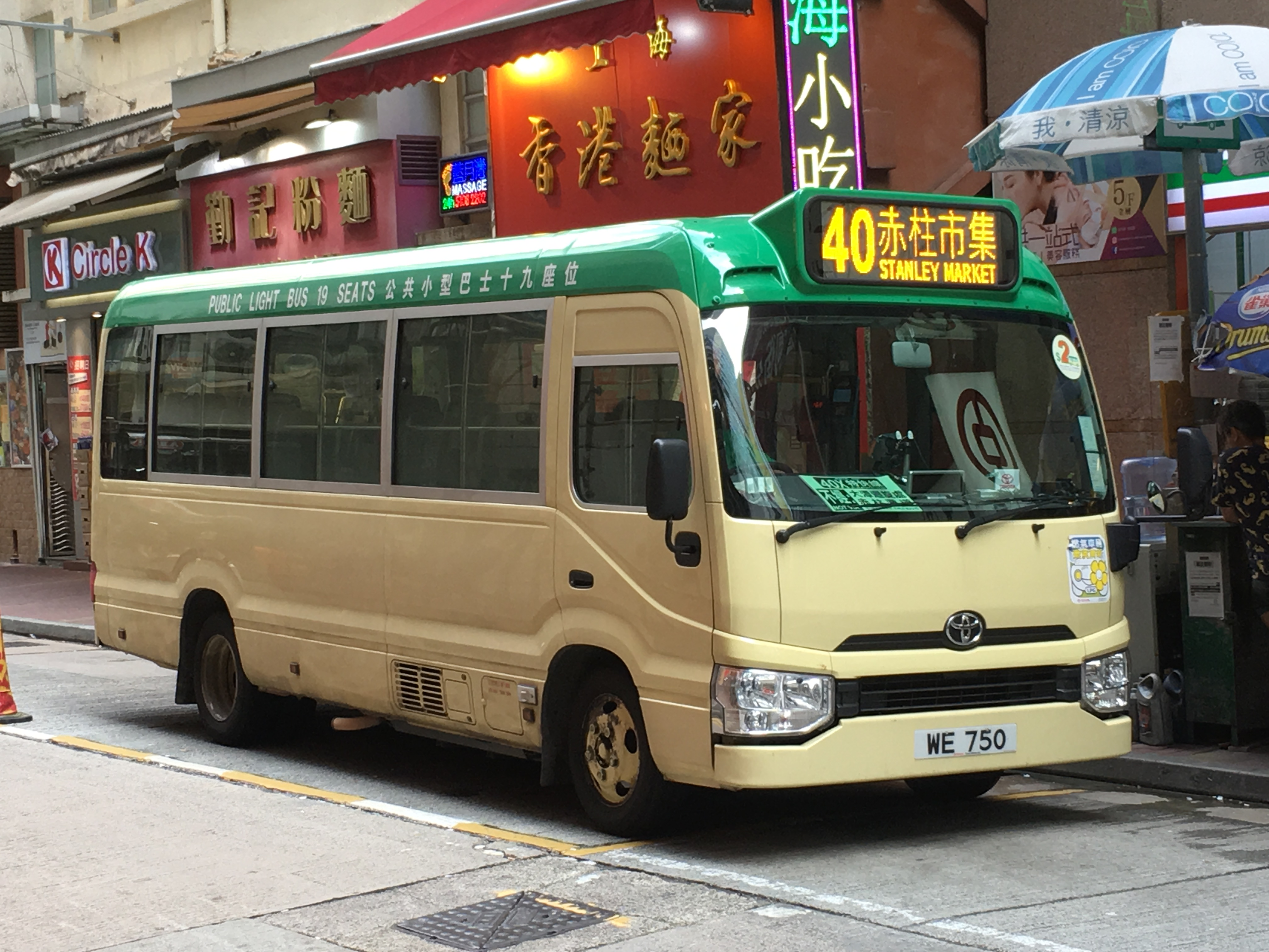 中文（香港）: This photo is taken in Causeway Bay.